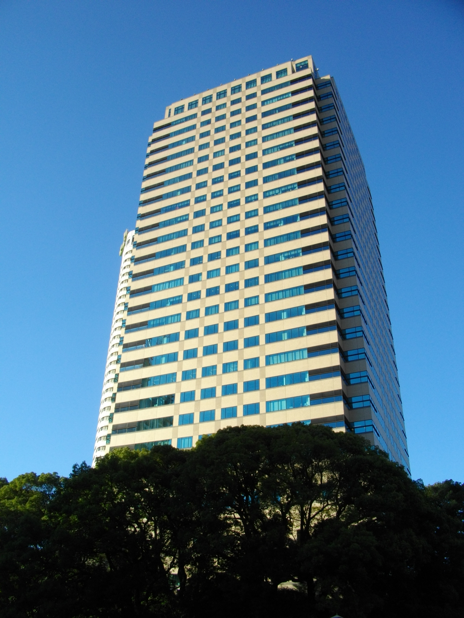 Hotel New Otani Tokyo Garden Court